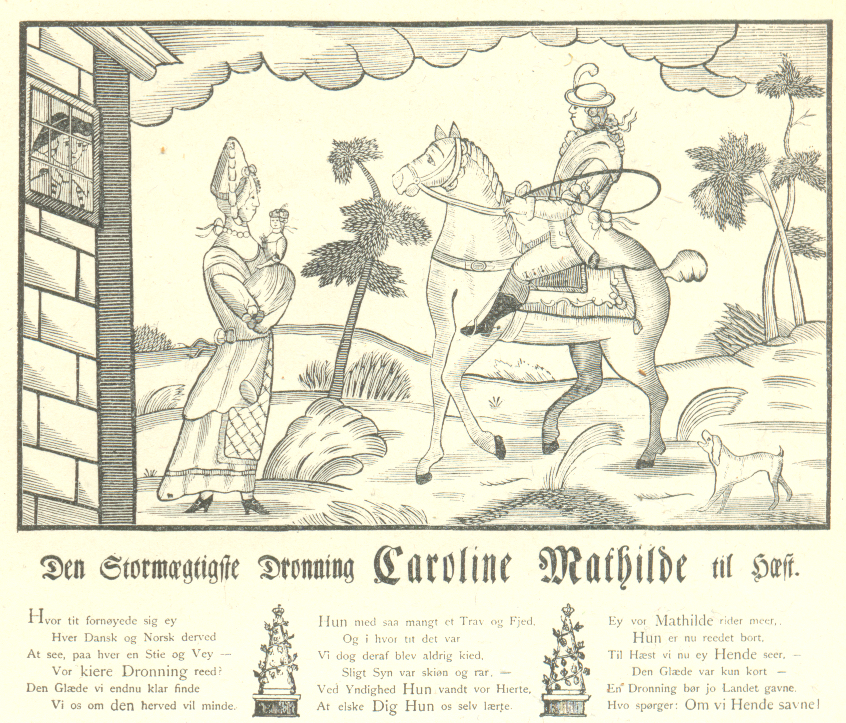 "Den Stormægtigste Dronning Caroline Mathilde til Hæst". Satirical print from 1772, showing the queen Caroline Mathilde riding away dressed as a man. Struensee is watching from prison. The nanny is carrying their child, princess Louise Augusta.